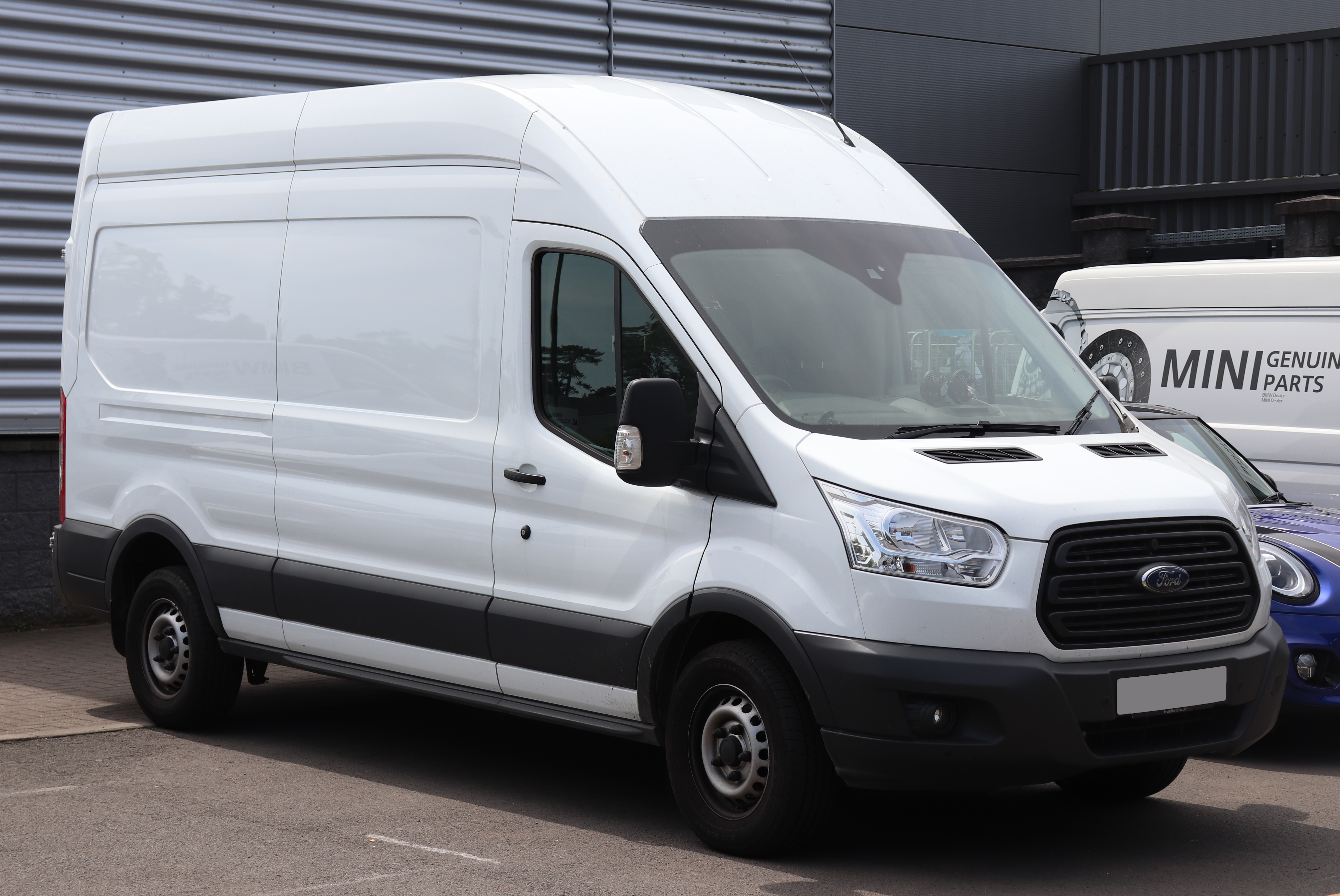 2016 Ford Transit 350 2.2 Taken in Solihull